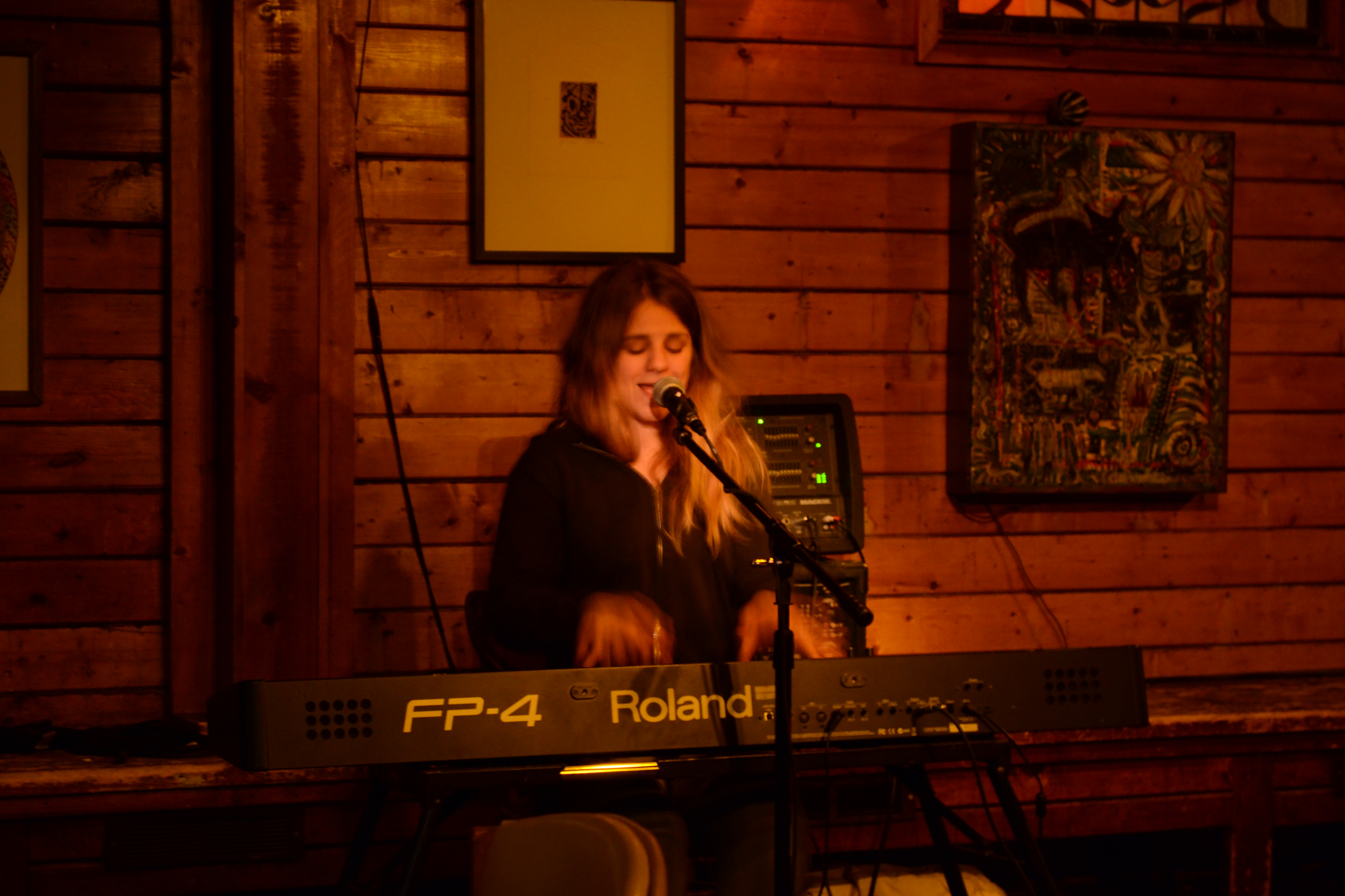 Stephanie Nilles at the Barking Spider Tavern in Cleveland, OH